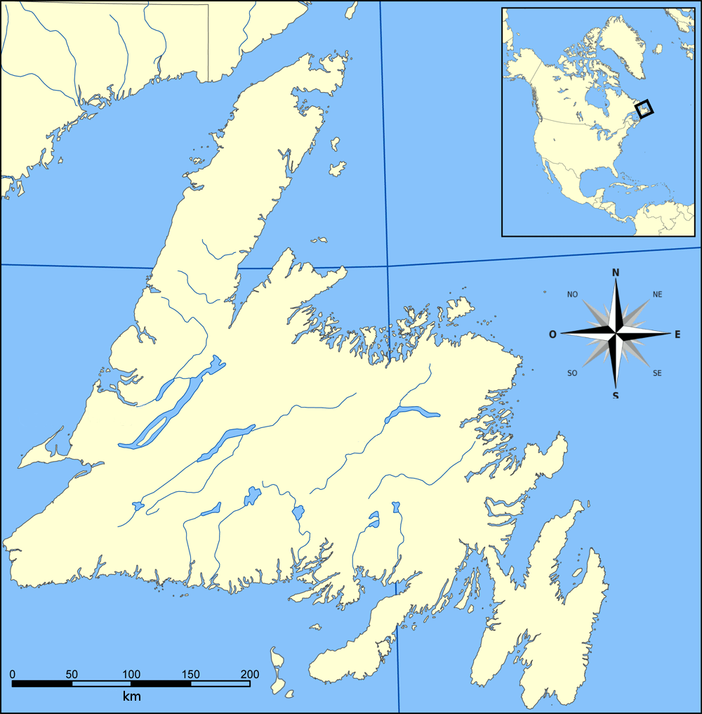 A map of Newfoundland with no markings